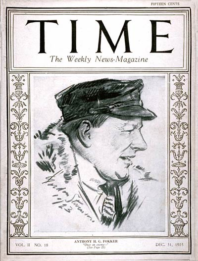 TIME Magazine Cover Featuring Anthony Fokker (31 Dec 1923)